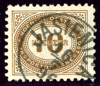 Austrian KK postage due stamp, issue 1894, 10 kreuzer, cancelled at JASIENICA (Galicia, Poland) in 1896 - District Brzozow